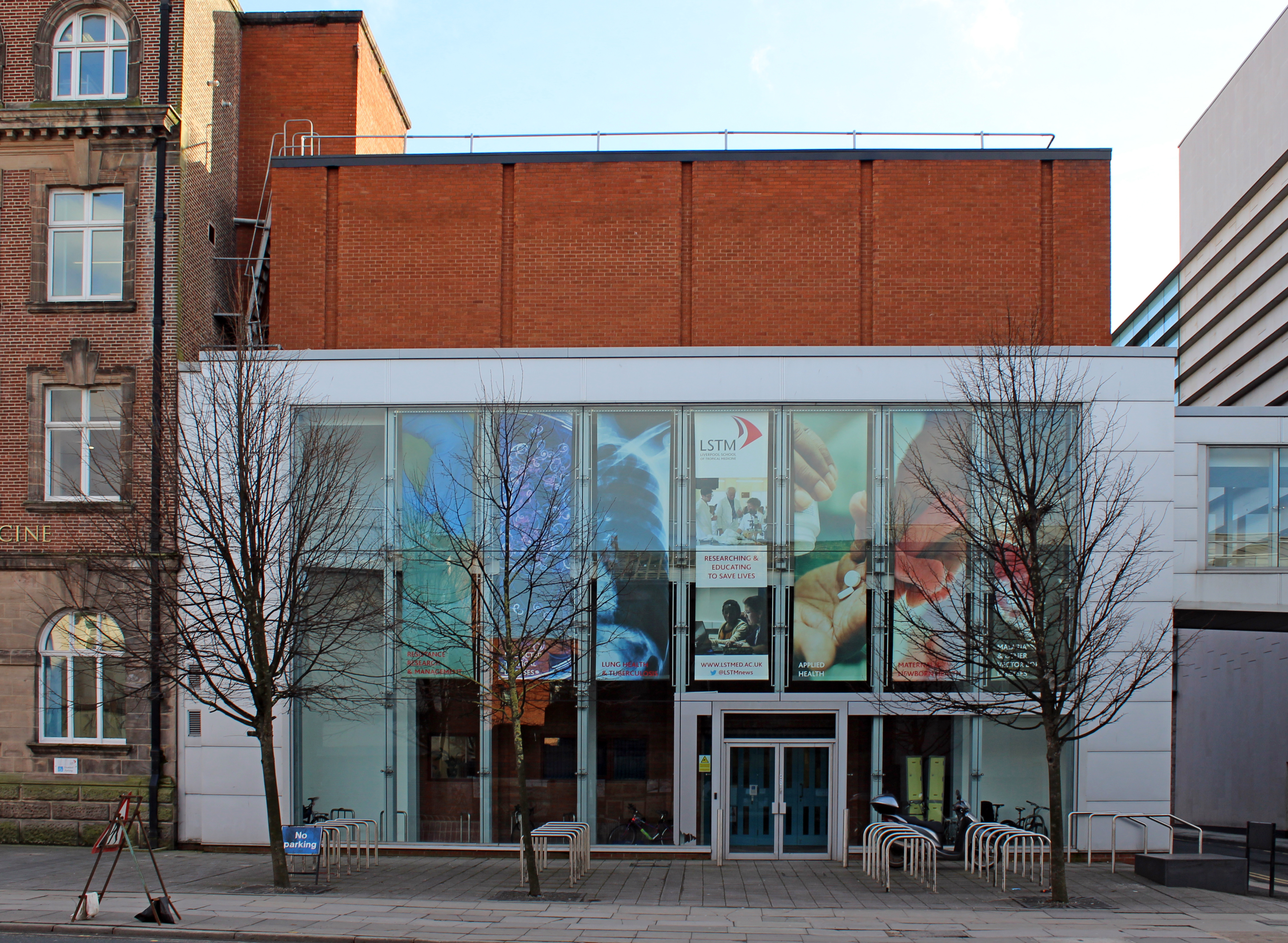 Between the main building and CTID